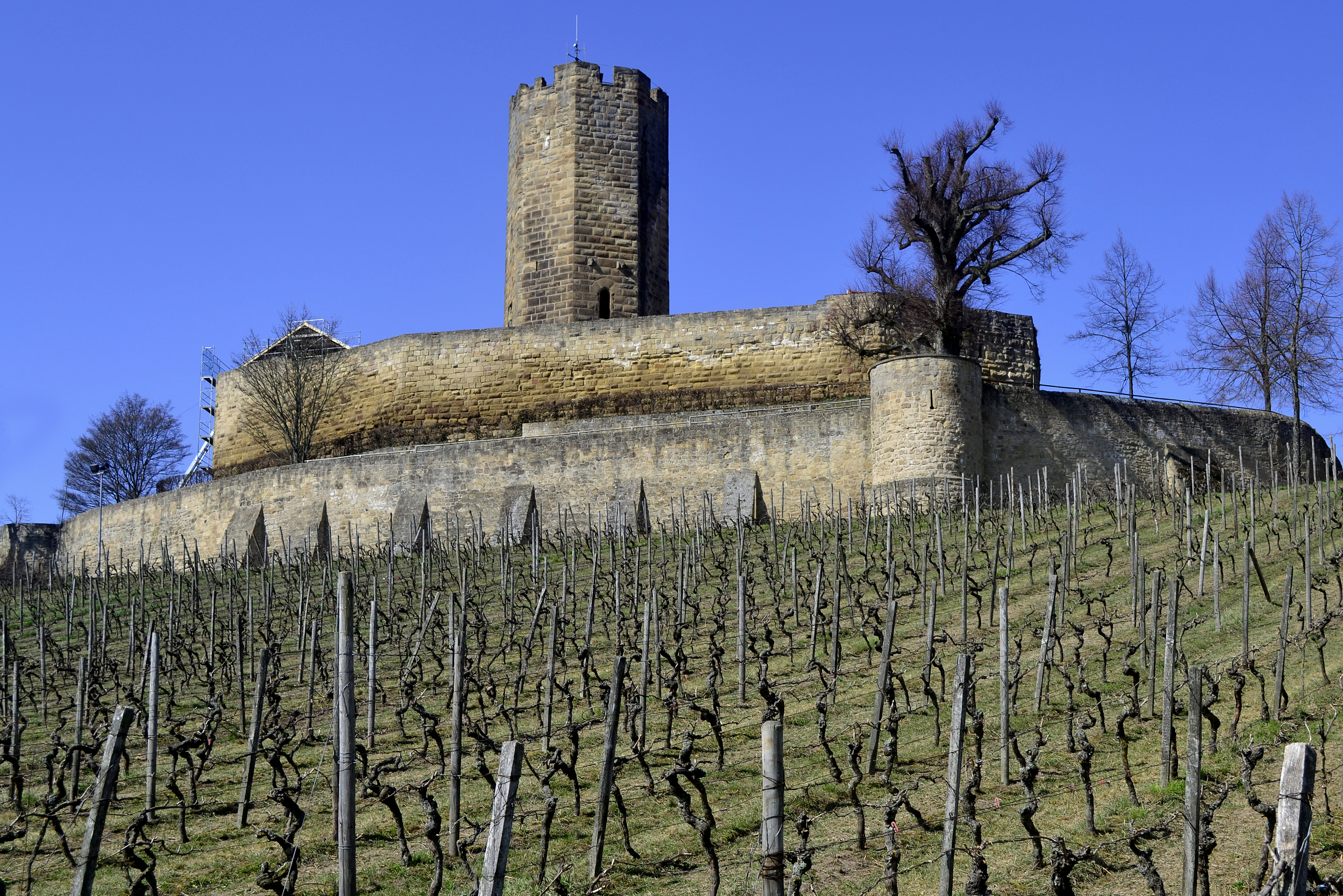 Steinsberg Castle